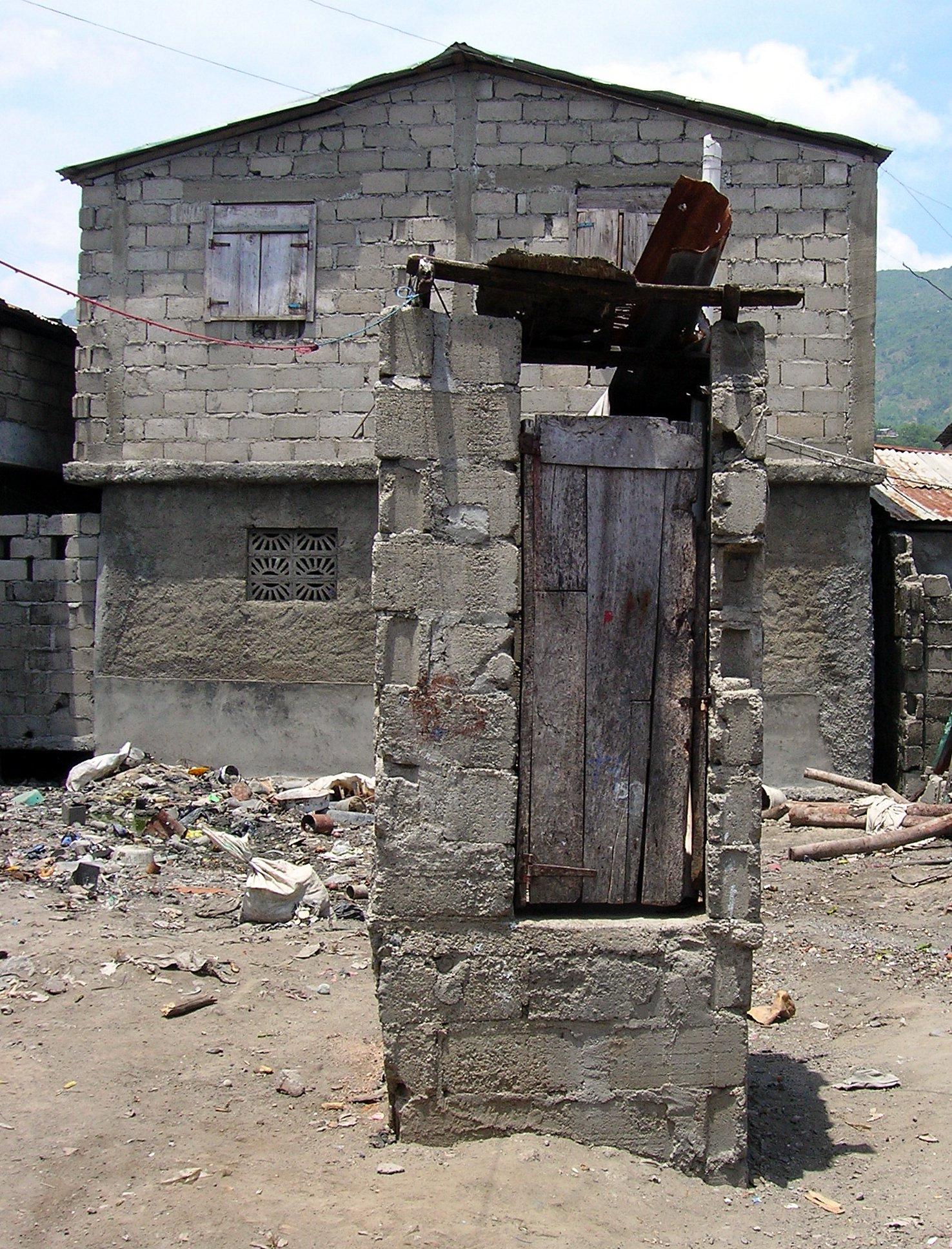 A simple pit latrine in the area of Conassa, Cap-Haitien, Haiti. Note the raised pit in case of flooding, the damaged roof and the door too high for children. Yet, this is one of the rare private latrines in this area, where most people practise open defecation.